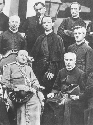 Giuseppe Sarto in Treviso 1875-76, bishop Federico Zinelli, Pietro Jacuzzi chaplain in Riese